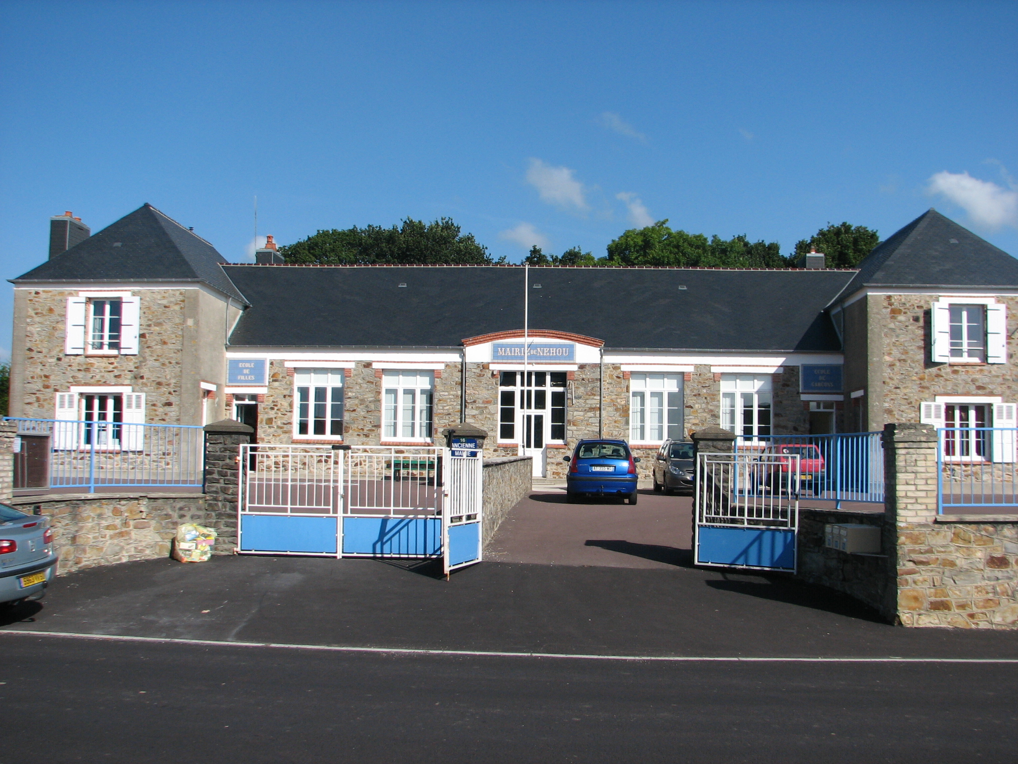 the old City hall Néhou